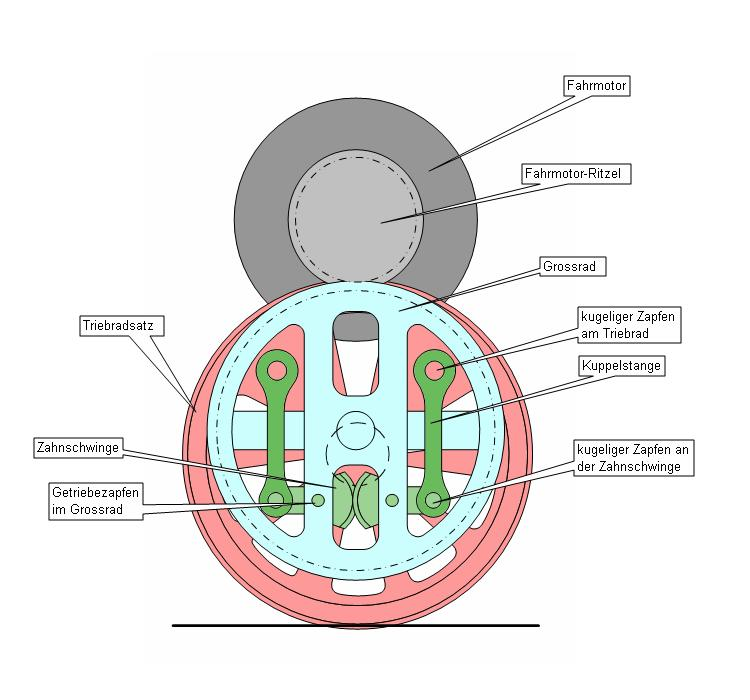 Diagram of Buchli-drive as used in railway locomotives